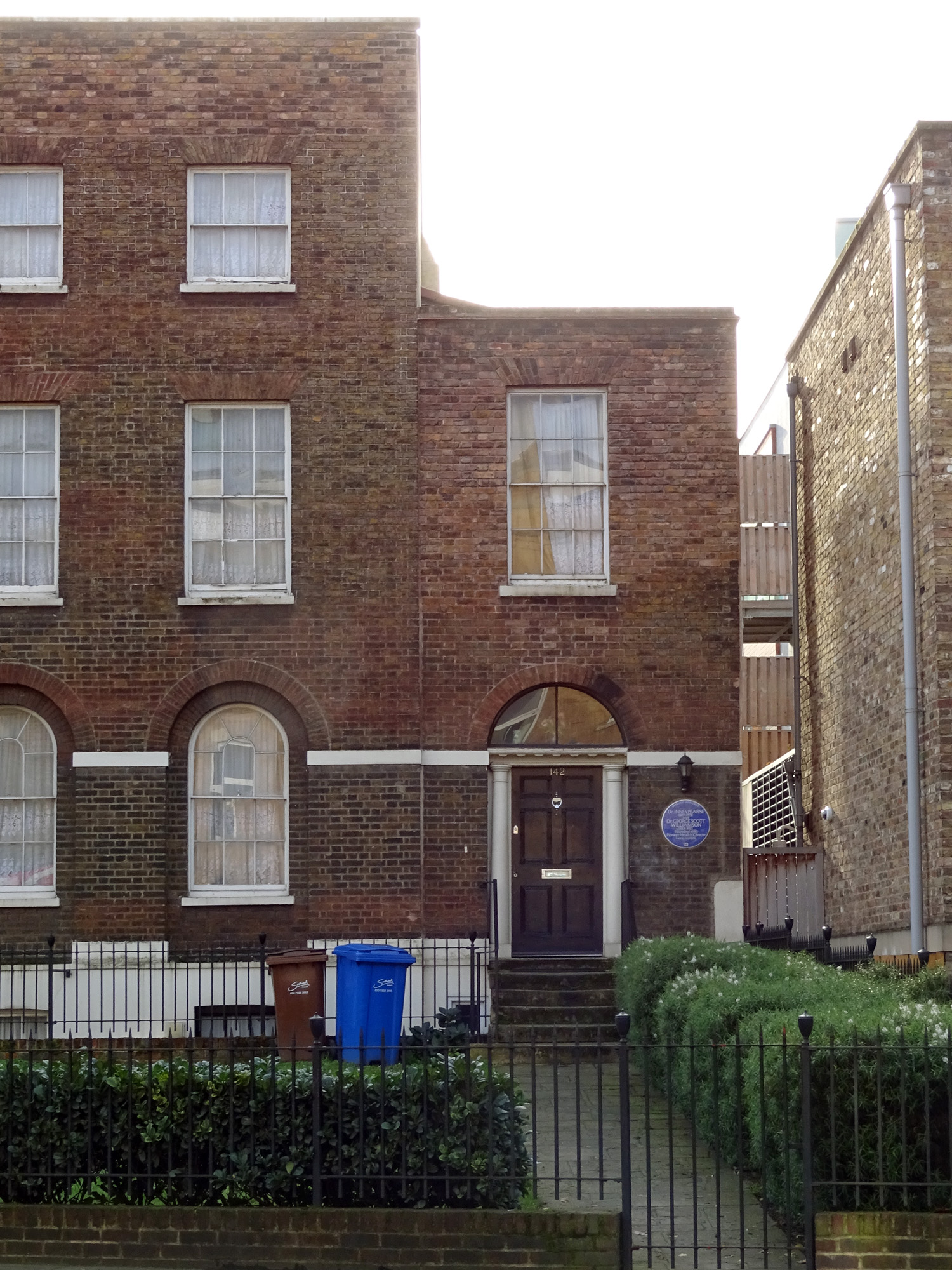 Dr. INNES PEARSE 1889-1978 and Dr. GEORGE SCOTT WILLIAMSON 1884-1953 founded the Pioneer Health Centre here in 1926 - 142 Queen's Road Peckham London SE15 2HP